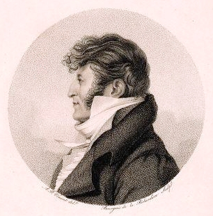 French violinist, composer and conductor Charles-Frédéric Kreubé (1777-1846) by Antoine-Achille Bourgeois de La Richardière (1777-18??) after Antoine-Paul Vincent (17??-18??)